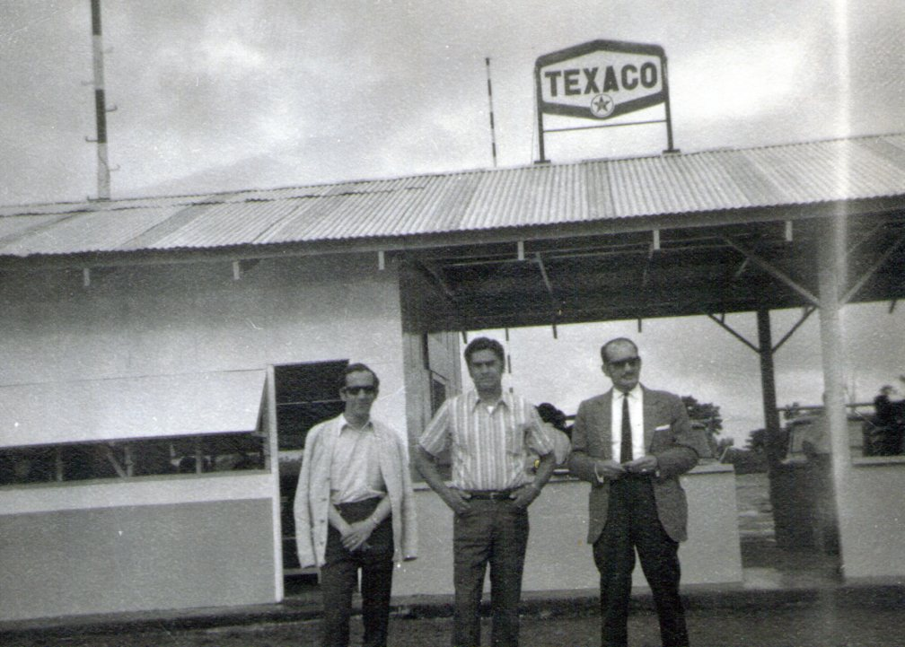 This photo was taken at the private airport of the Texas Petroleum Company (Texaco), located in Puerto Boyaca (Colombia). On the left side of the photo is Dr. Carlos Emiro Jácome Illera and on the right side of the photo, Dr. Leon J. Meek